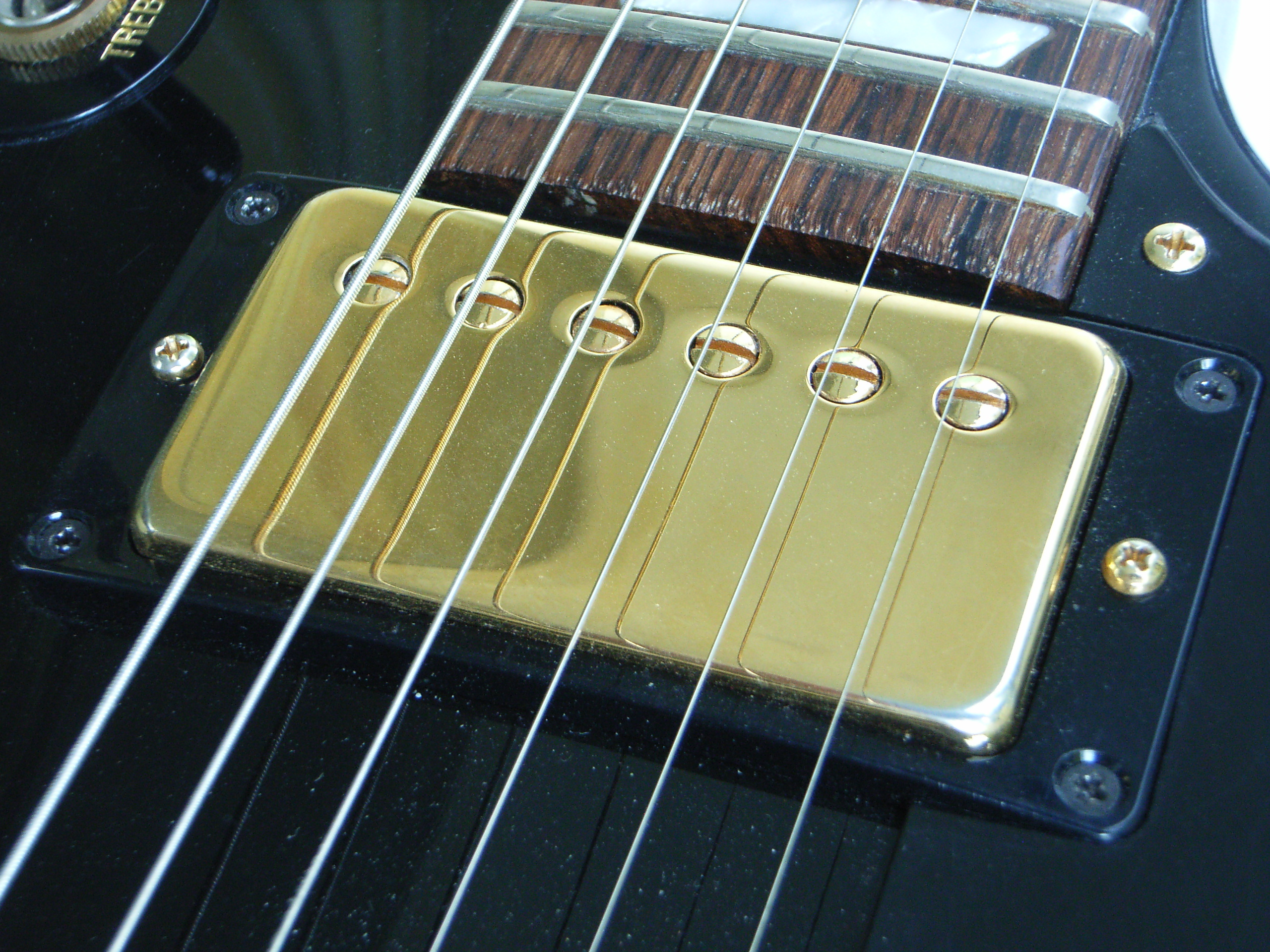 PAF Humbucker Pickup on a Gibson Les Paul